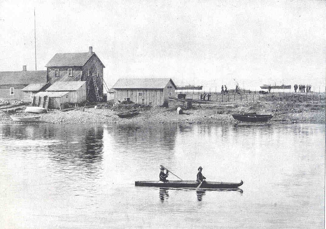 Karlud River. Bidarka with Natives. Office of Karluk Packing Company Steamers Bertha and Haytien Republic Subject: Traditional Fisheries, Karluk Packing Company (Karluk, Alaska) Geographic Subject: United States--Alaska--Karluk Tag: Commercial Fisheries